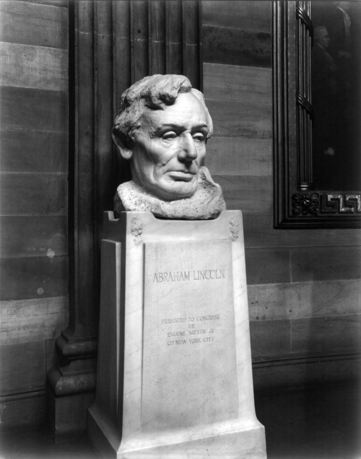 Bust of Abraham Lincoln, carved in marble by Gutzon Borglum. Bust is currently on display in the Crypt of the U.S. Capitol.[1]